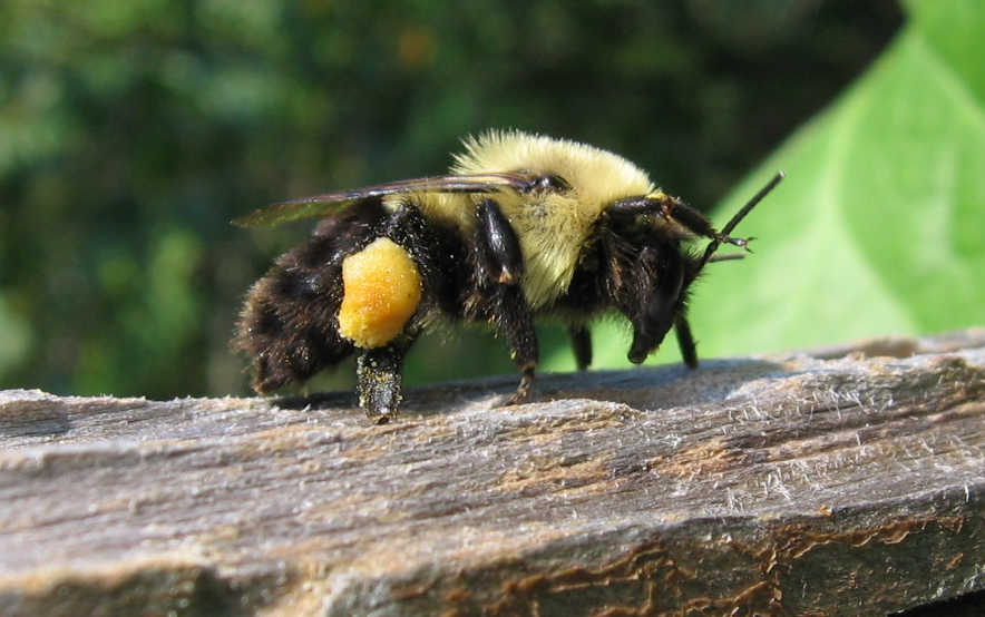 Cutted out of image [Bumblebee 3 EHM.jpg] Bumblebee with a load of pollen. Looks like it might be cleaning its antenna with its leg. For scale, the bee is on the edge of a board that is 3/4" (1.9cm) thick, and the vine is a morning glory.